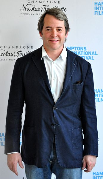 Actor Matthew Broderick attends the 19th Annual Hamptons International Film Festival Chariman's Reception on October 15, 2011 at the home of Stuart Suna in East Hampton, New York. (Photo © Nick Stepowyj)